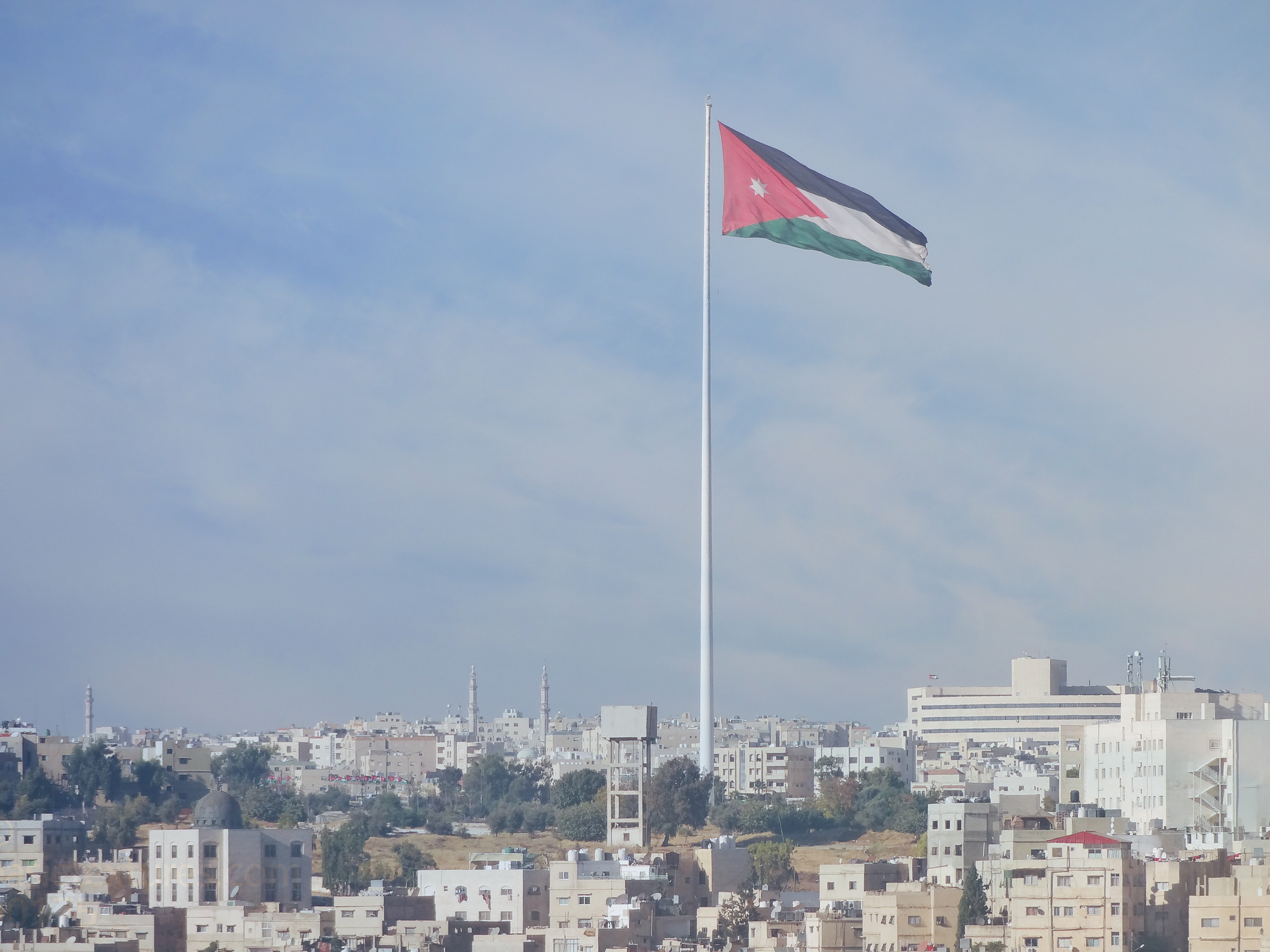 Settlement at the Citadel extends over 7,000 years